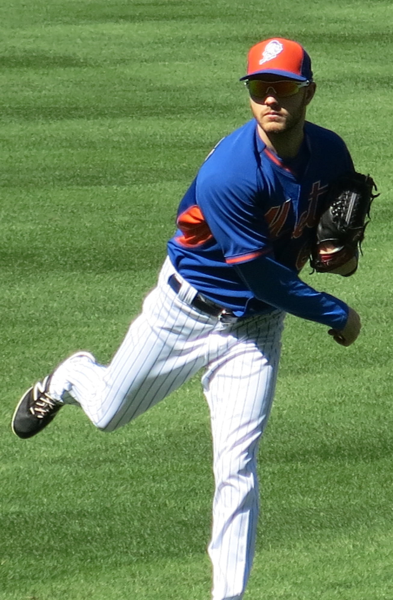 Erik Goeddel of the New York Mets, September 25, 2016.